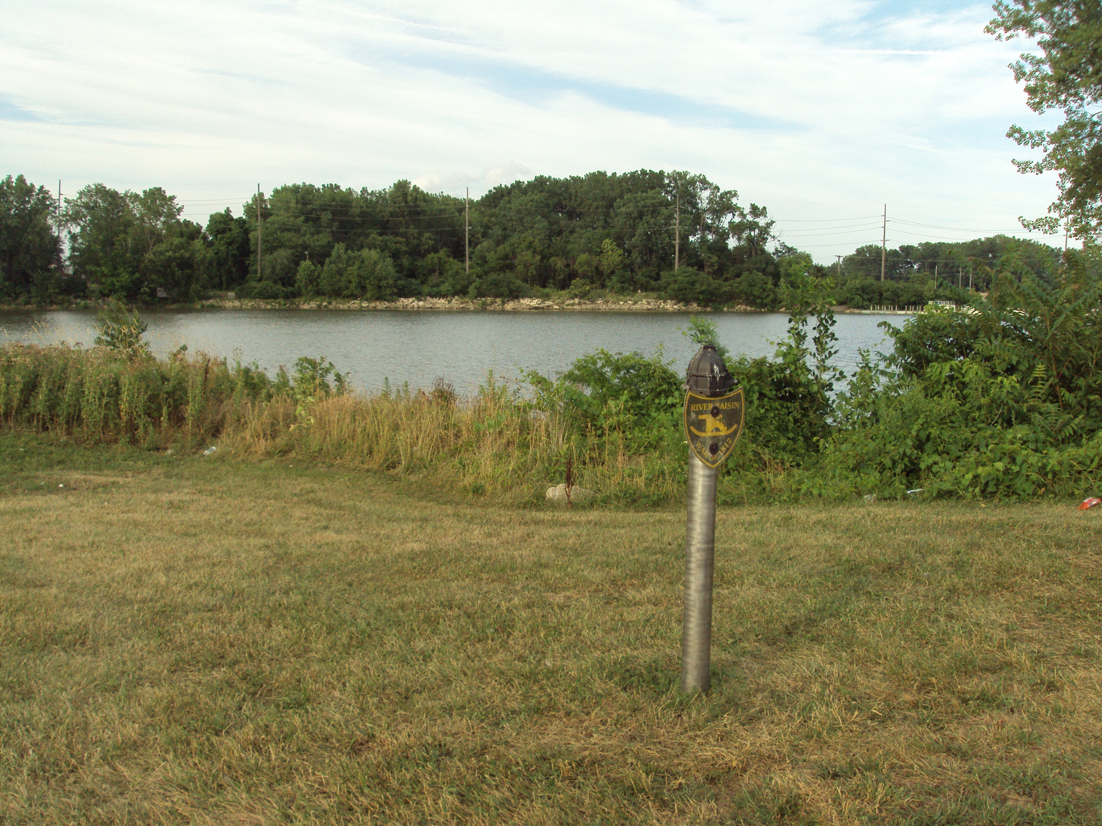 Location of the crossing of the River Raisin by Colonel Lewis during the First Battle of the River Raisin